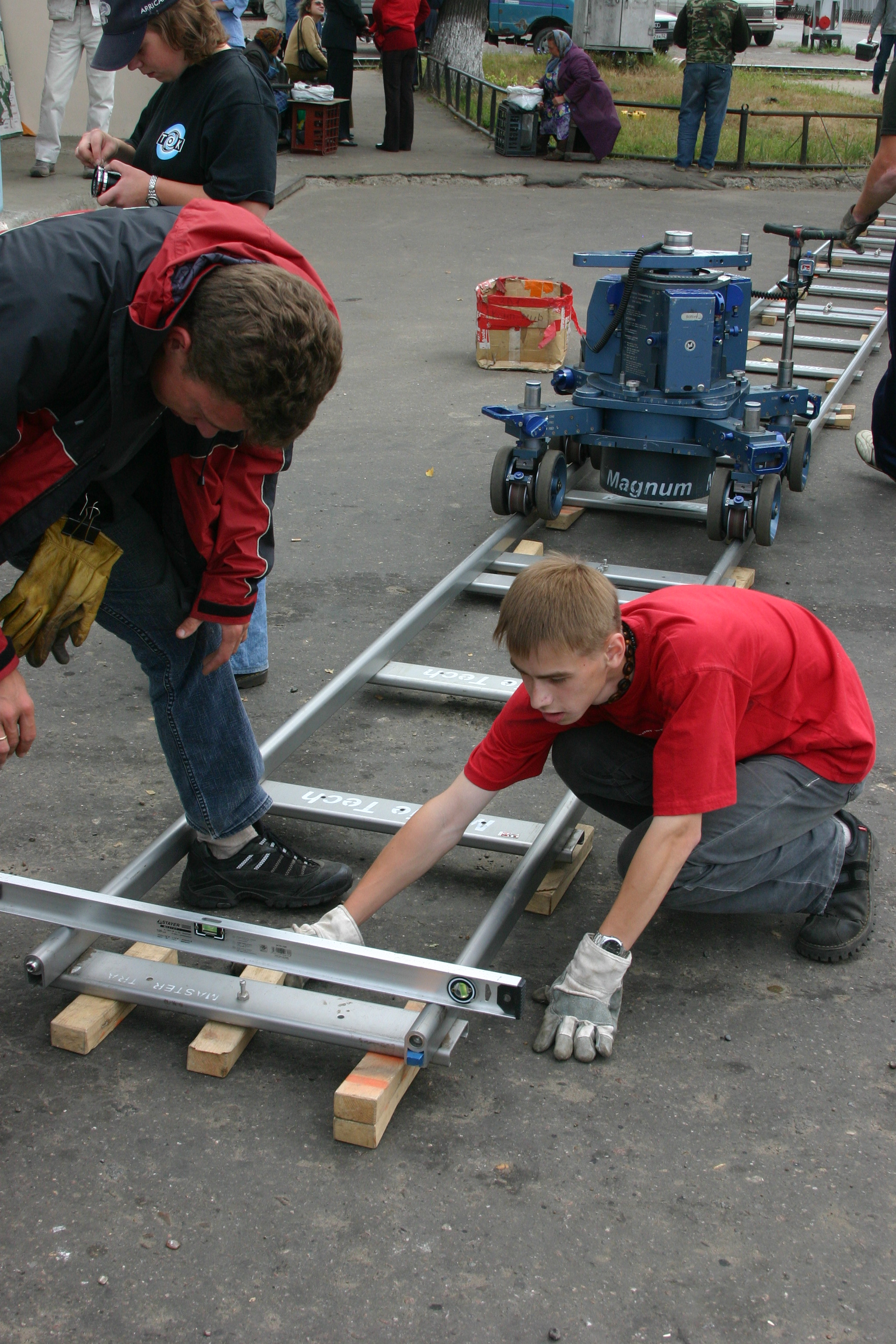 Dolly crew mounting rails before filming of 'Swan heaven' TV series.